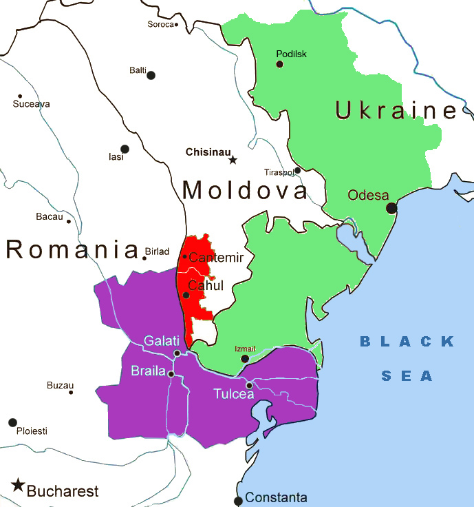 Map of Lower Danube Euroregion, following the available sources